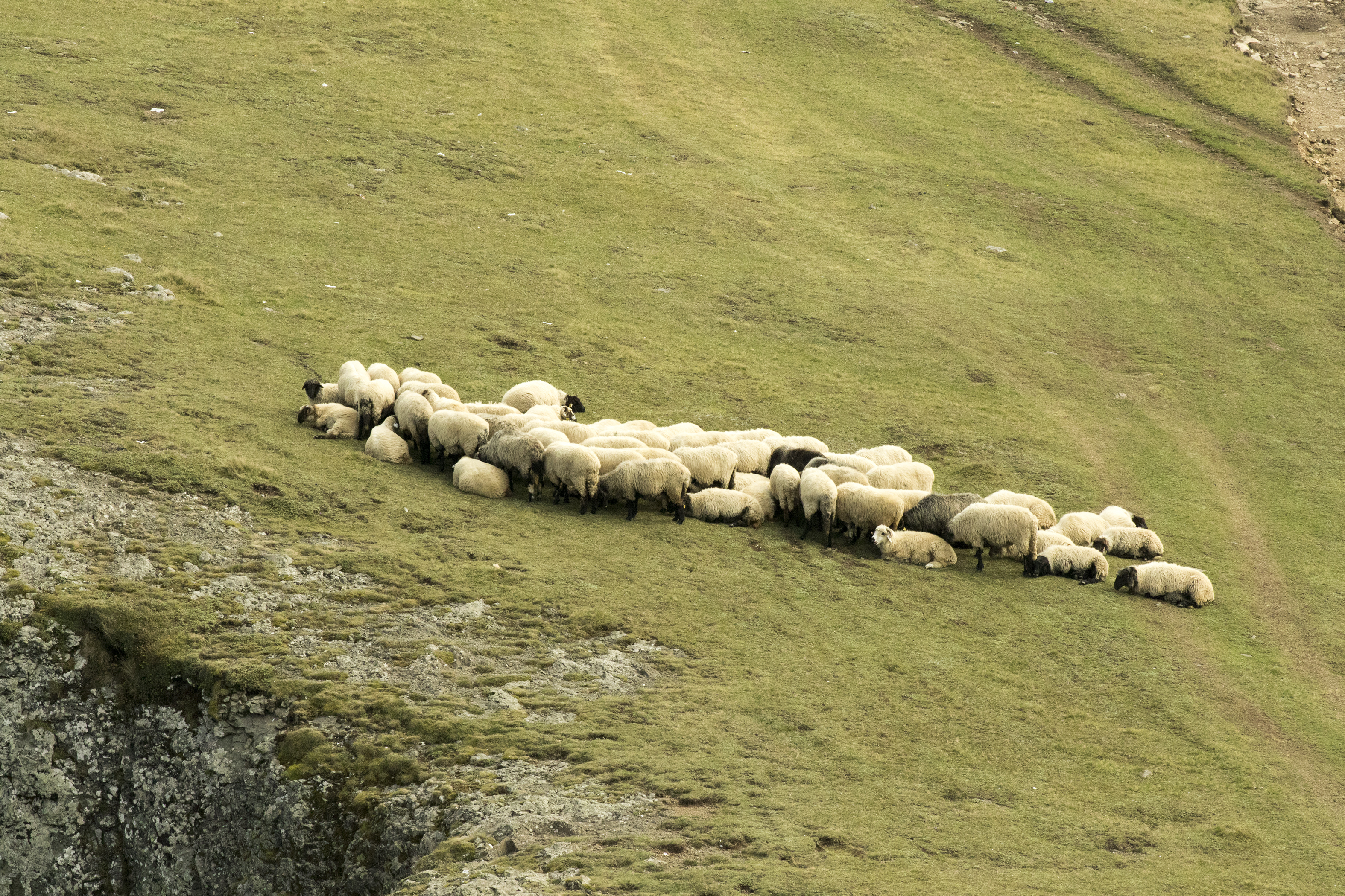 A Karayaka sheep flock grazing at the eastern pastures of Sisdağı Mt. Gökçeköy, Şalpazarı - Trabzon, Turkey.